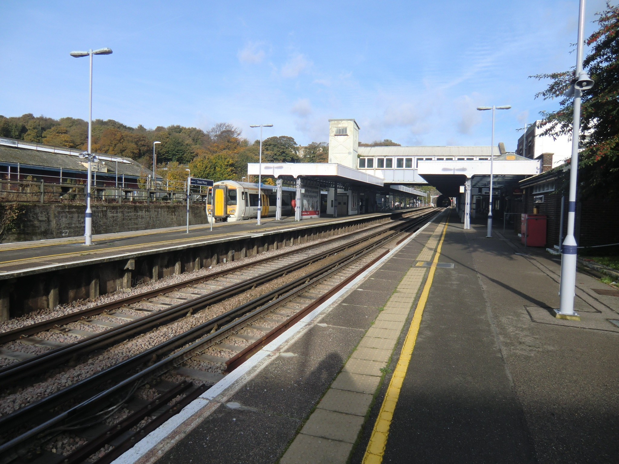 Picture taken of Dover Priory Station showing the platforms towards Ramsgate / Faversham